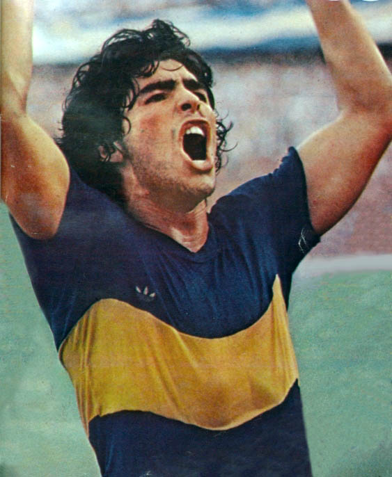 Diego Maradona celebrating a goal scored against Talleres de Córdoba during his debut match at Boca Juniors, played in La Bombonera. This photo would be cover on El Gráfico, the most important sports magazine of Argentina.